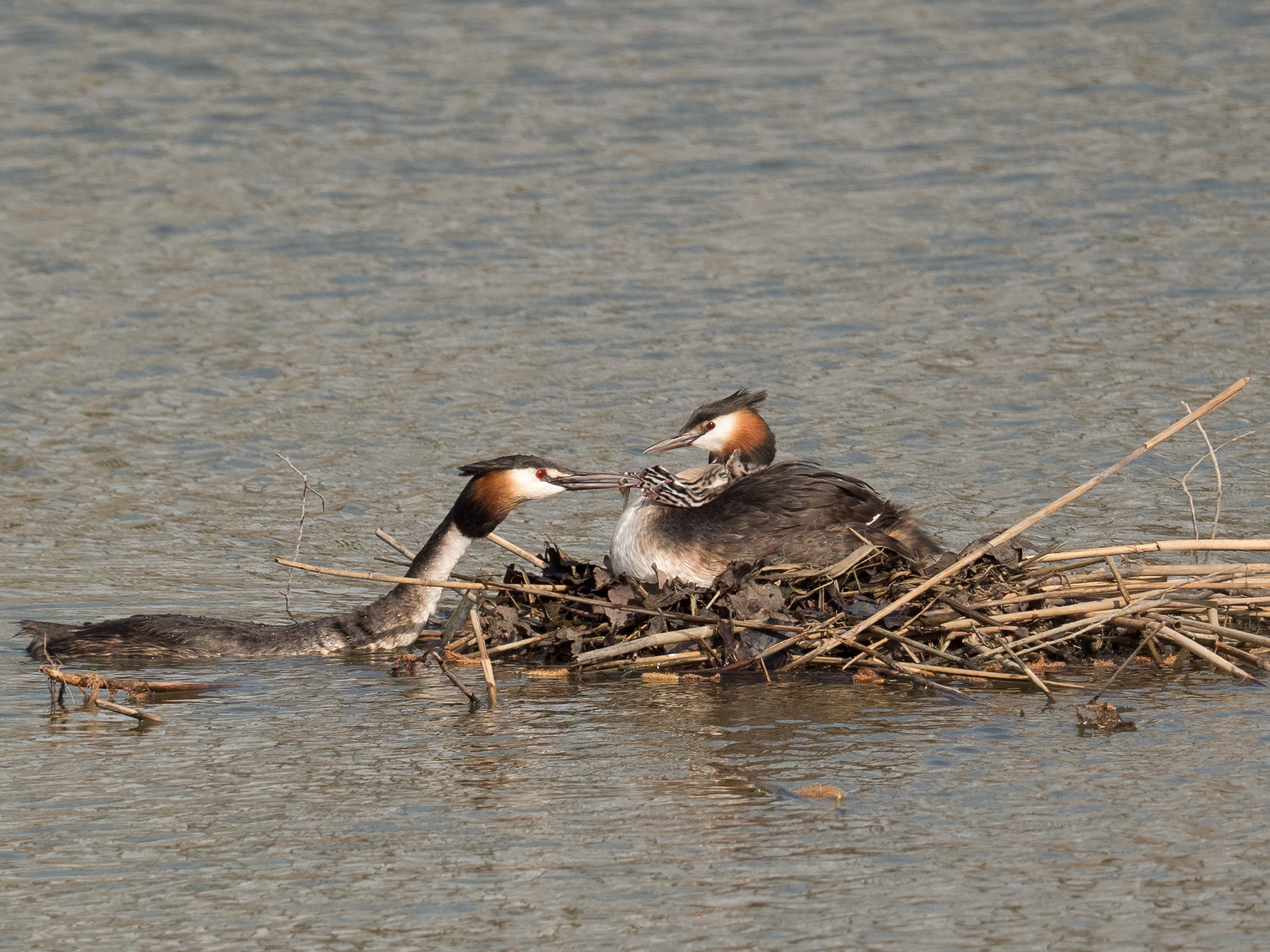 Podiceps cristatus feeding chicks